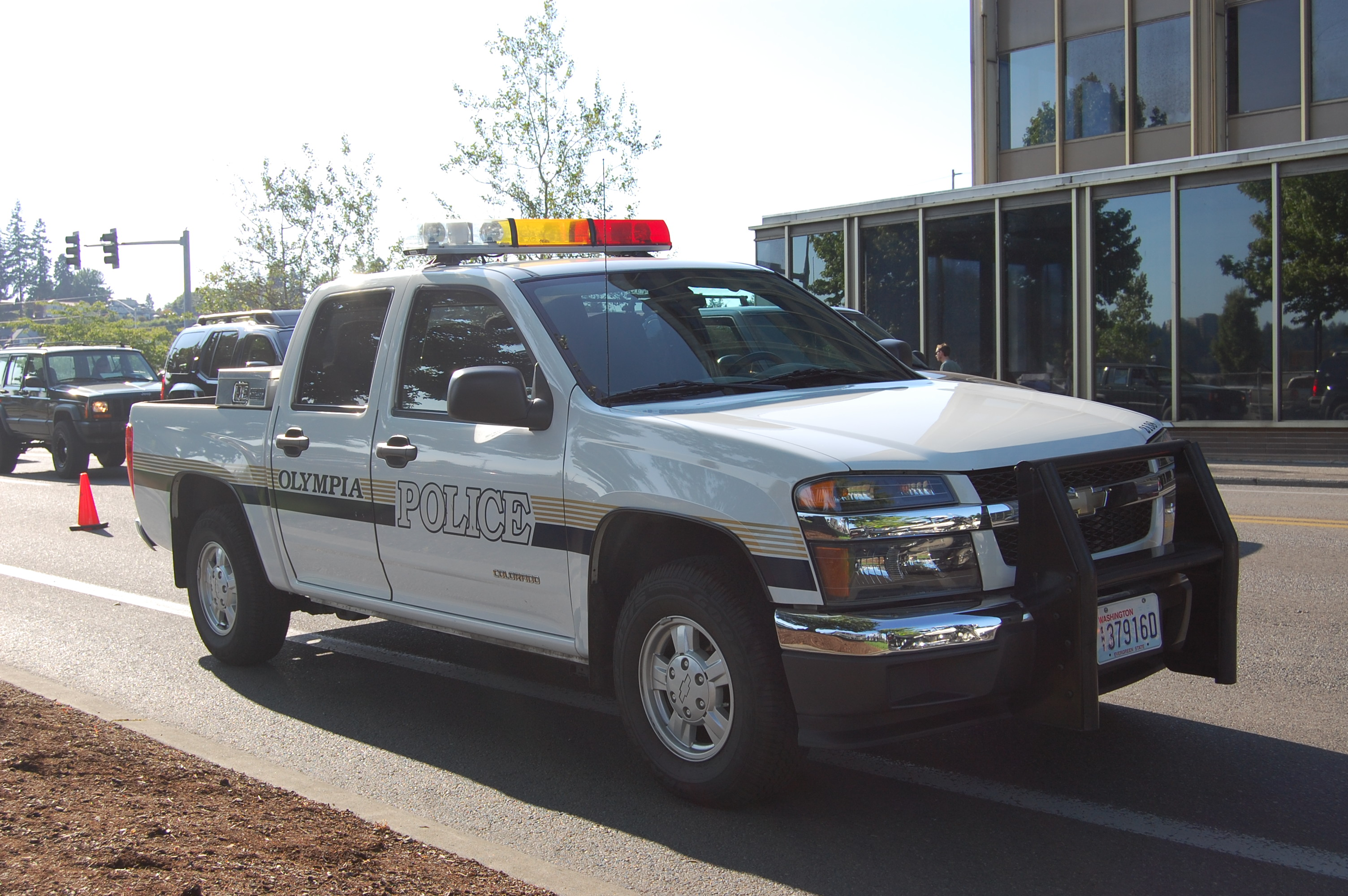 Olympia Police Chevrolet Colorado at Lakefair 2008. Working the royal motorcade.